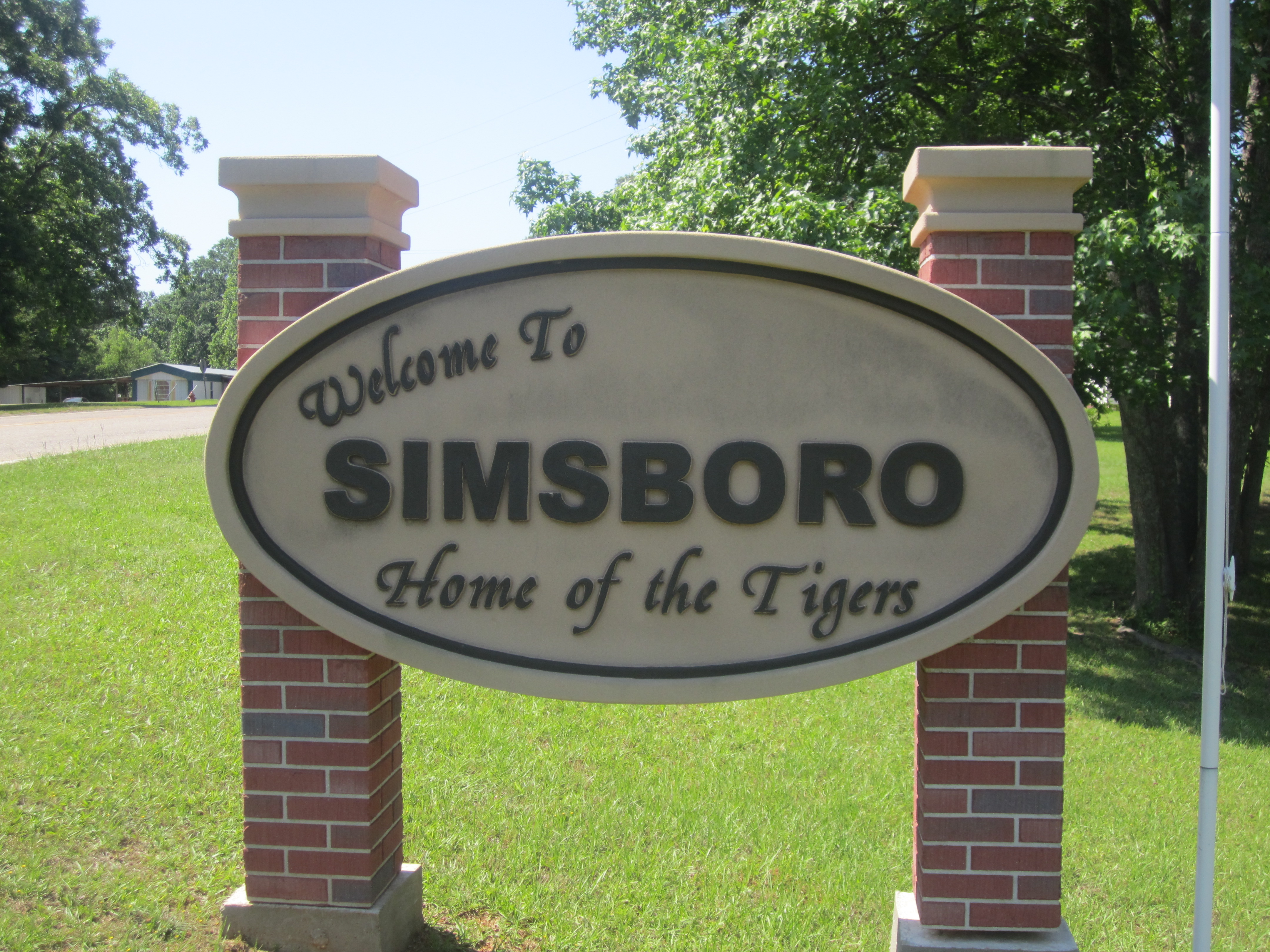 I took photo in Simsboro, LA, with Canon camera. It is the town ID sign.